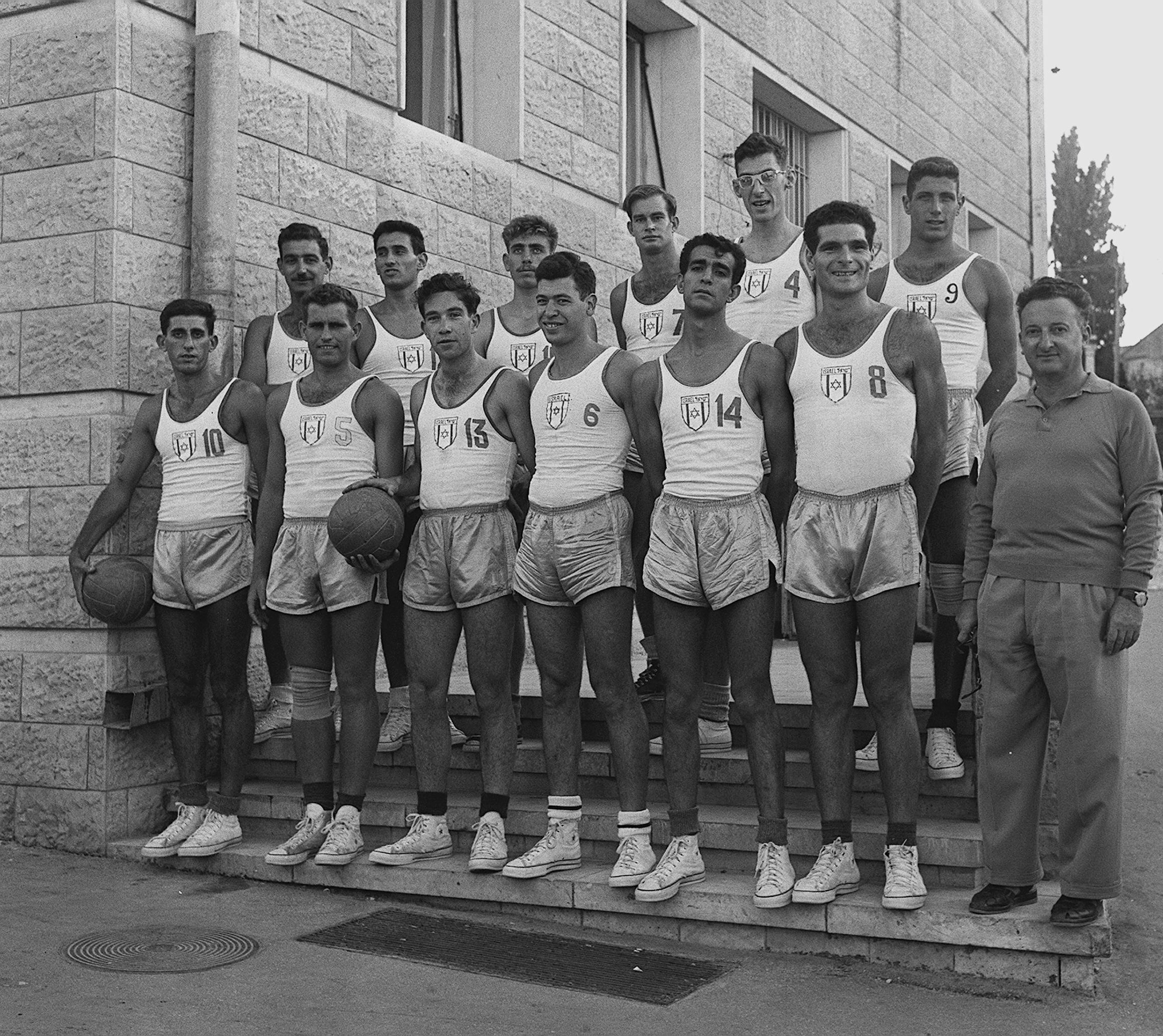 ISRAEL BASKETBALL TEAM. R-L 1ST. ROW, A. HEMO, H. HAZAN, E. LUBOSCHITZ, A. HOFFMAN. H. KASTAN & R. KLEIN (CAP) 2ND. S. BASSAT, T. COHEN MINS, E. LUSTIG, D. KAMINSKY & FISH